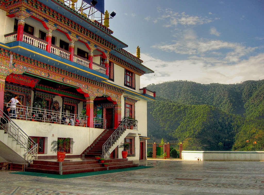 Amitabh Monastery, Kathmandu, Nepal